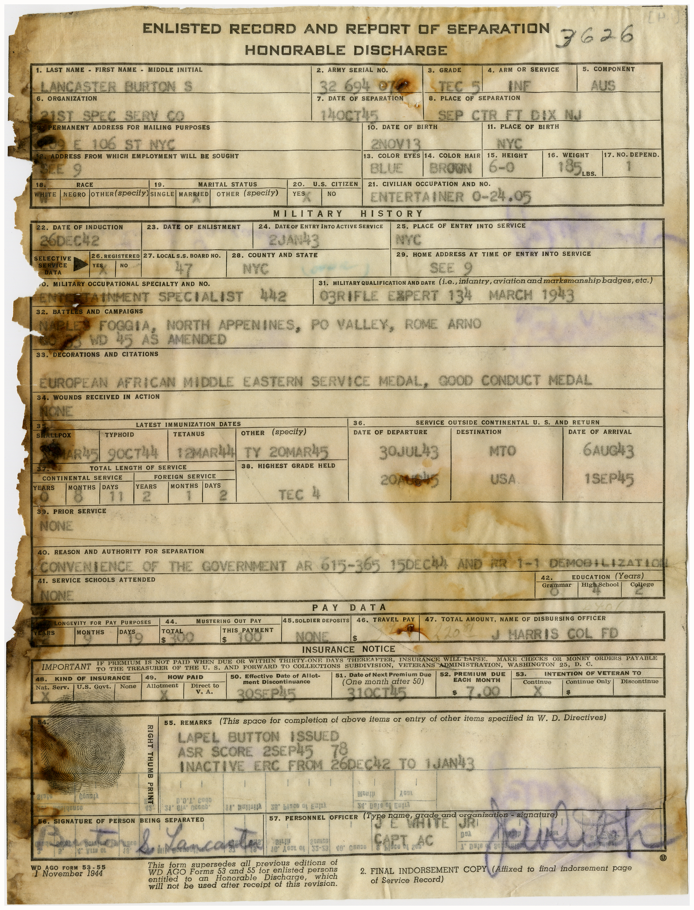 Burton Stephen Lancaster (1913-1994) discharge certificate (DD Form 214)